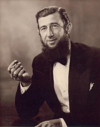 Australian actor Chips Rafferty as Peter Lalor from the 1948 film Eureka Stockade.